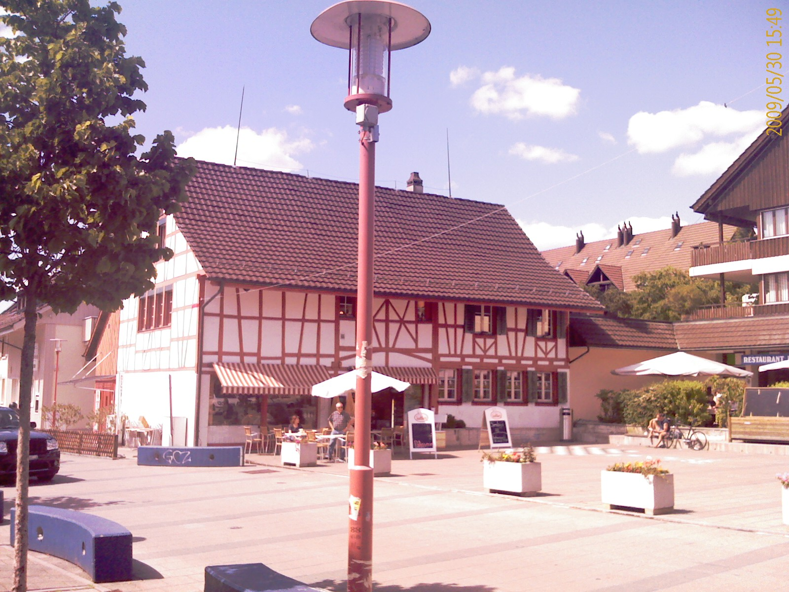 Timber framing house in the center of Niederhasli, canton of Zürich, SwitzerlandEsperanto: Faktrabdomo en la centro de Niederhasli, Kantono Zuriko, Svislando